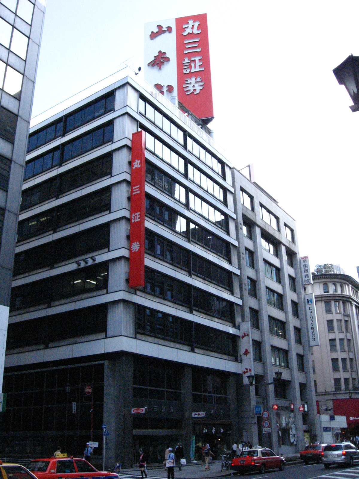 Laver and the tea party company "Yamamotoyama" headquarters in Nihonbashi Tokyo.